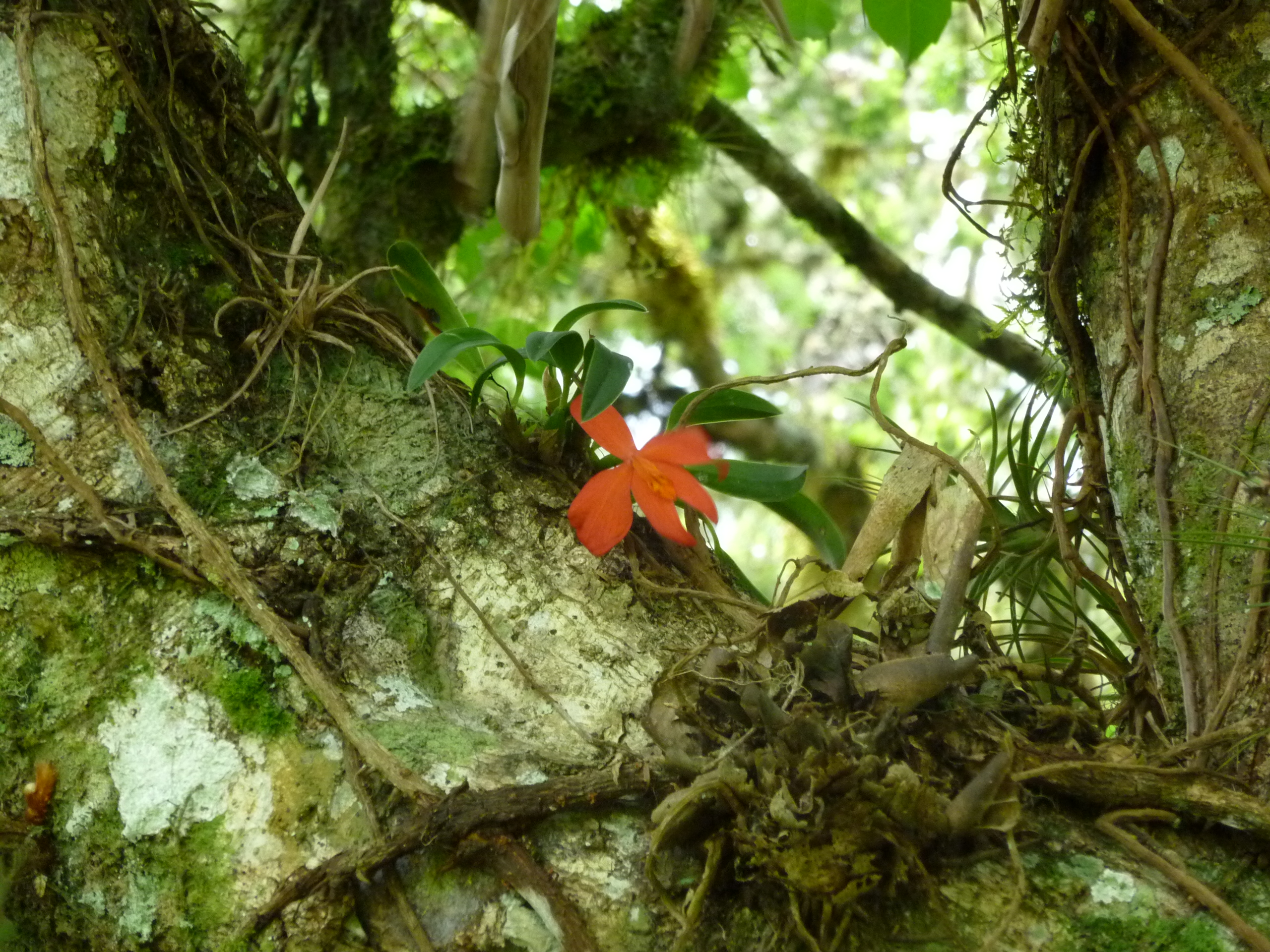 An epiphytic orchid in a Brazilian cloud forrest.